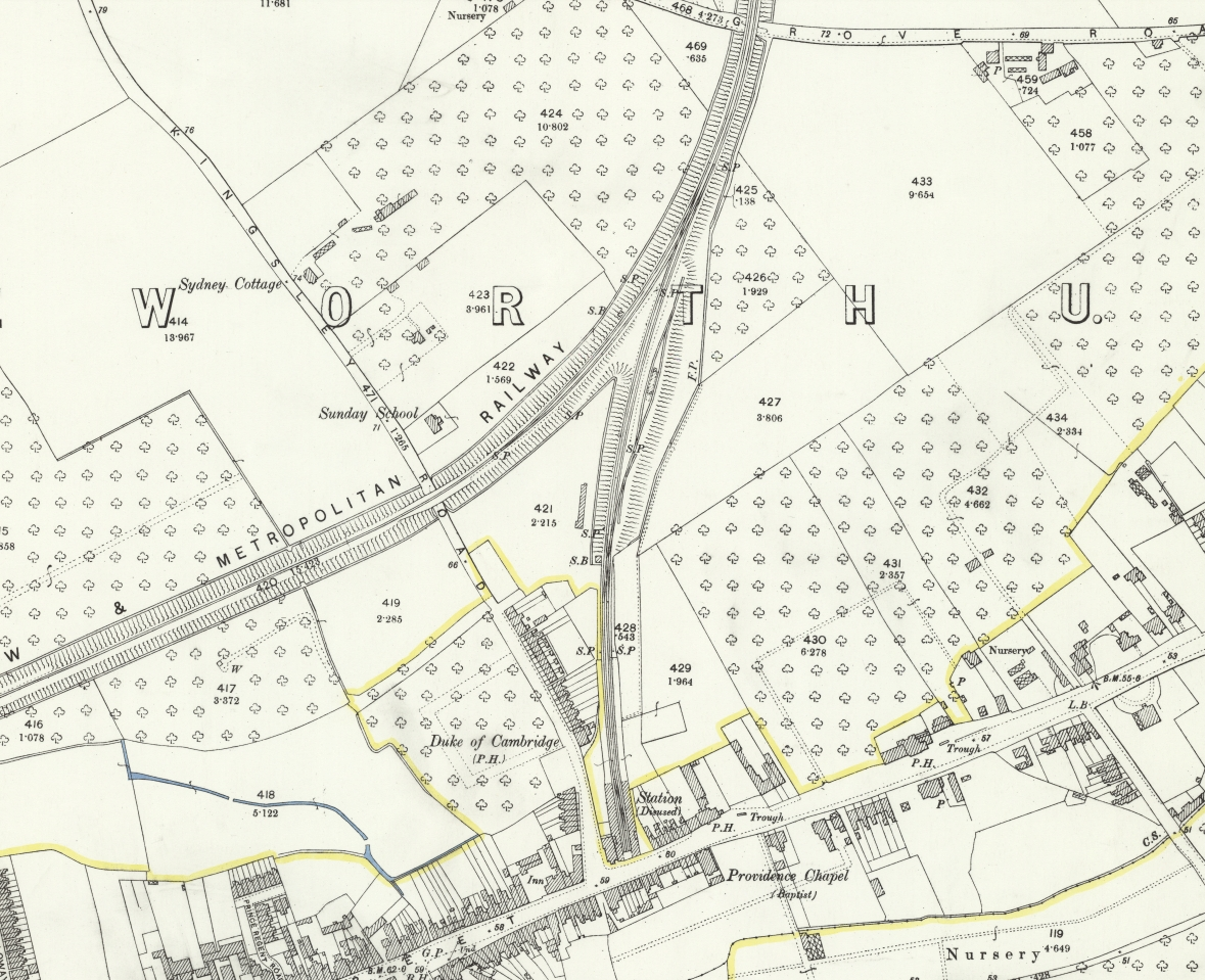 Hounslow Town tube station on the District Railway, 1895. The station was opened in 1883 and closed in 1886. It reopened in 1903 and closed again in 1909.